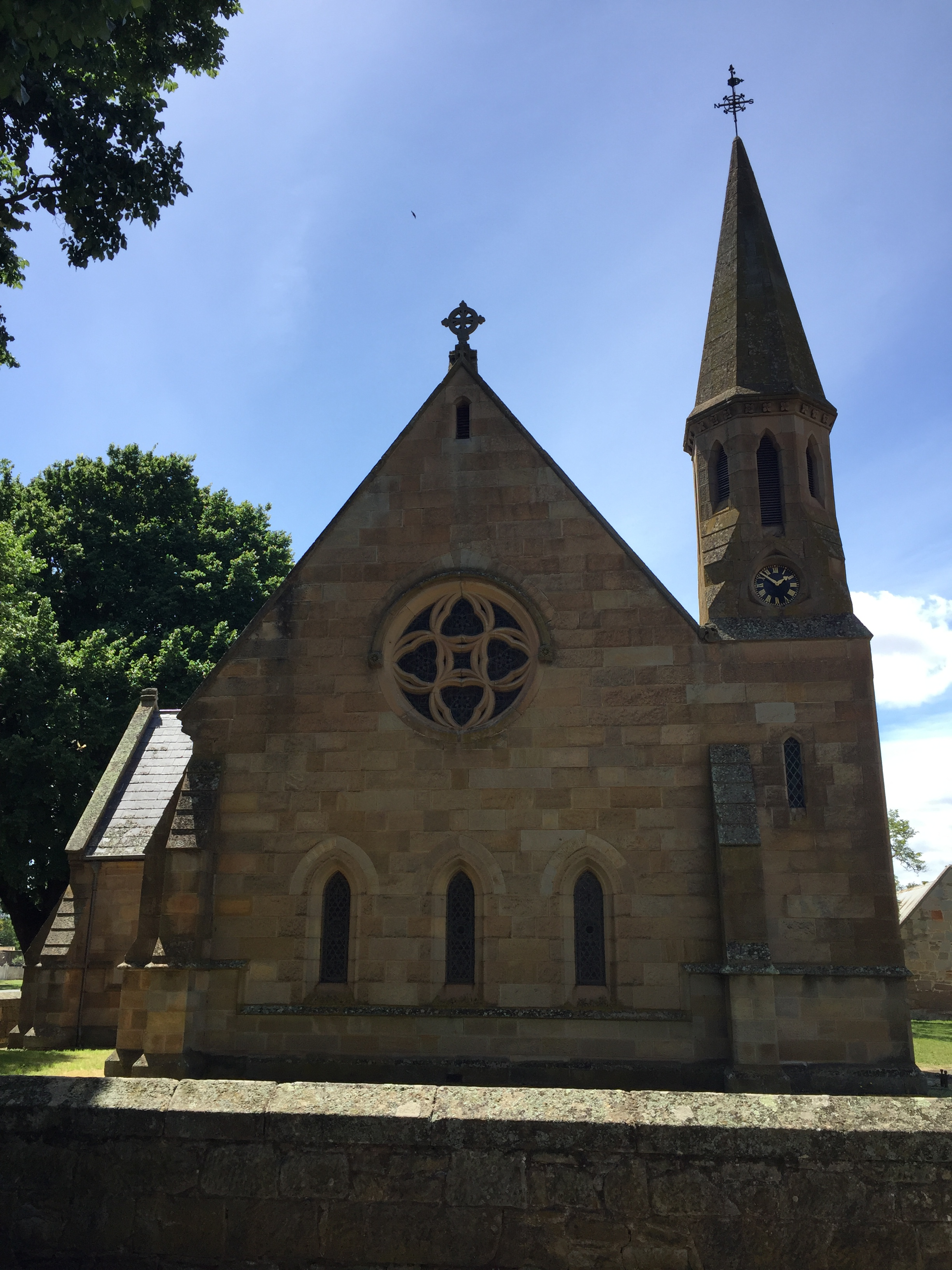 St John's Anglican Church (built in 1838) in Ross,Tasmania, Australia